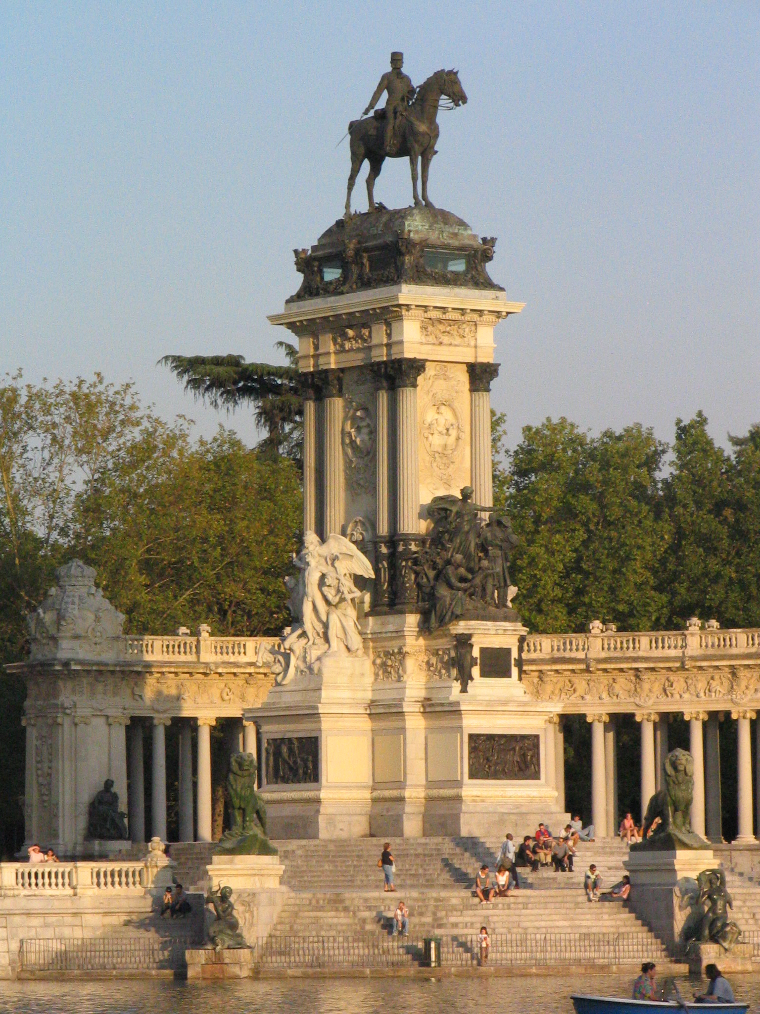 Partial view of the Monument to Alfonso XII of Spain in the Retiro Park (Jardines del Buen Retiro) in Madrid. It was projected in 1901 by architect José Grases Riera, built of stone and bronze from 1902 to 1922, and inaugurated on July 3rd, 1922. Sculptures were made by 22 artists.